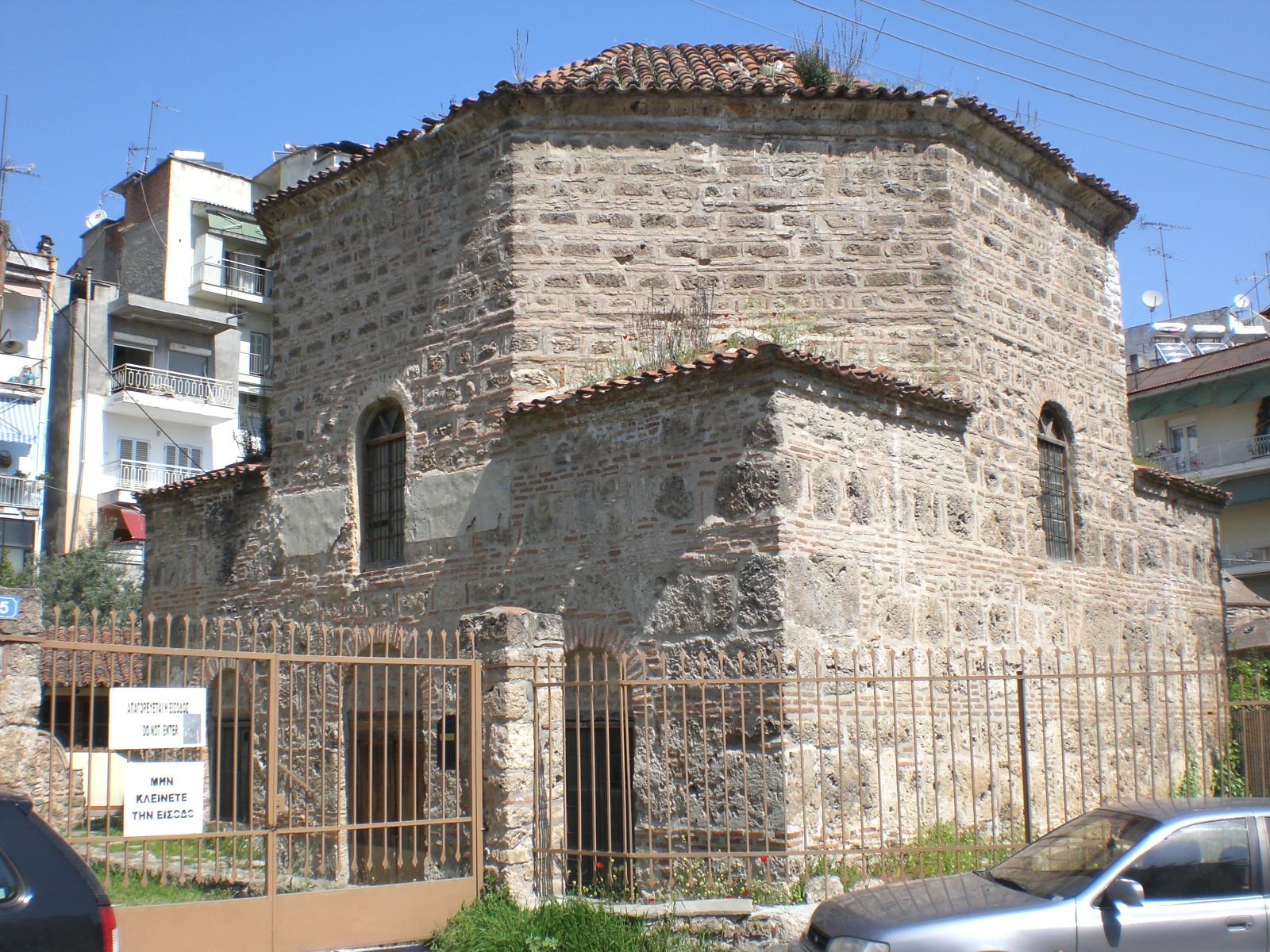 Dhidhymi Loutrones twin Hamam, Veria